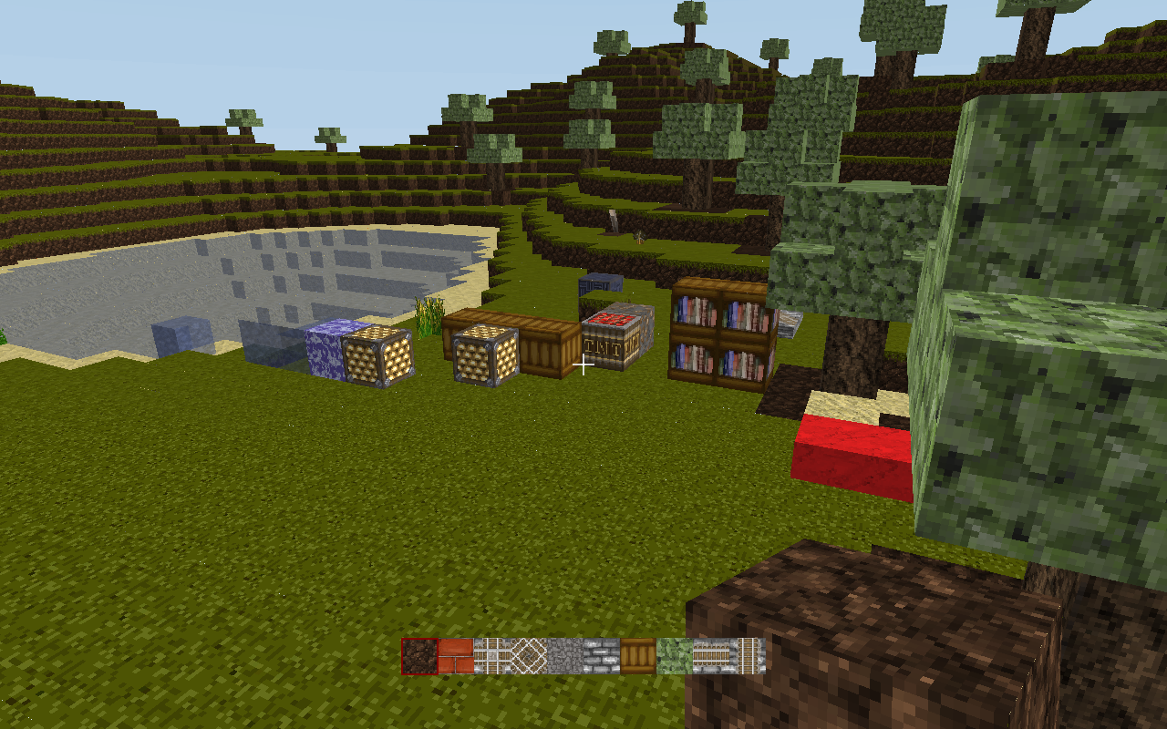 A screenshot of Manic Digger (public domain Minecraft clone)